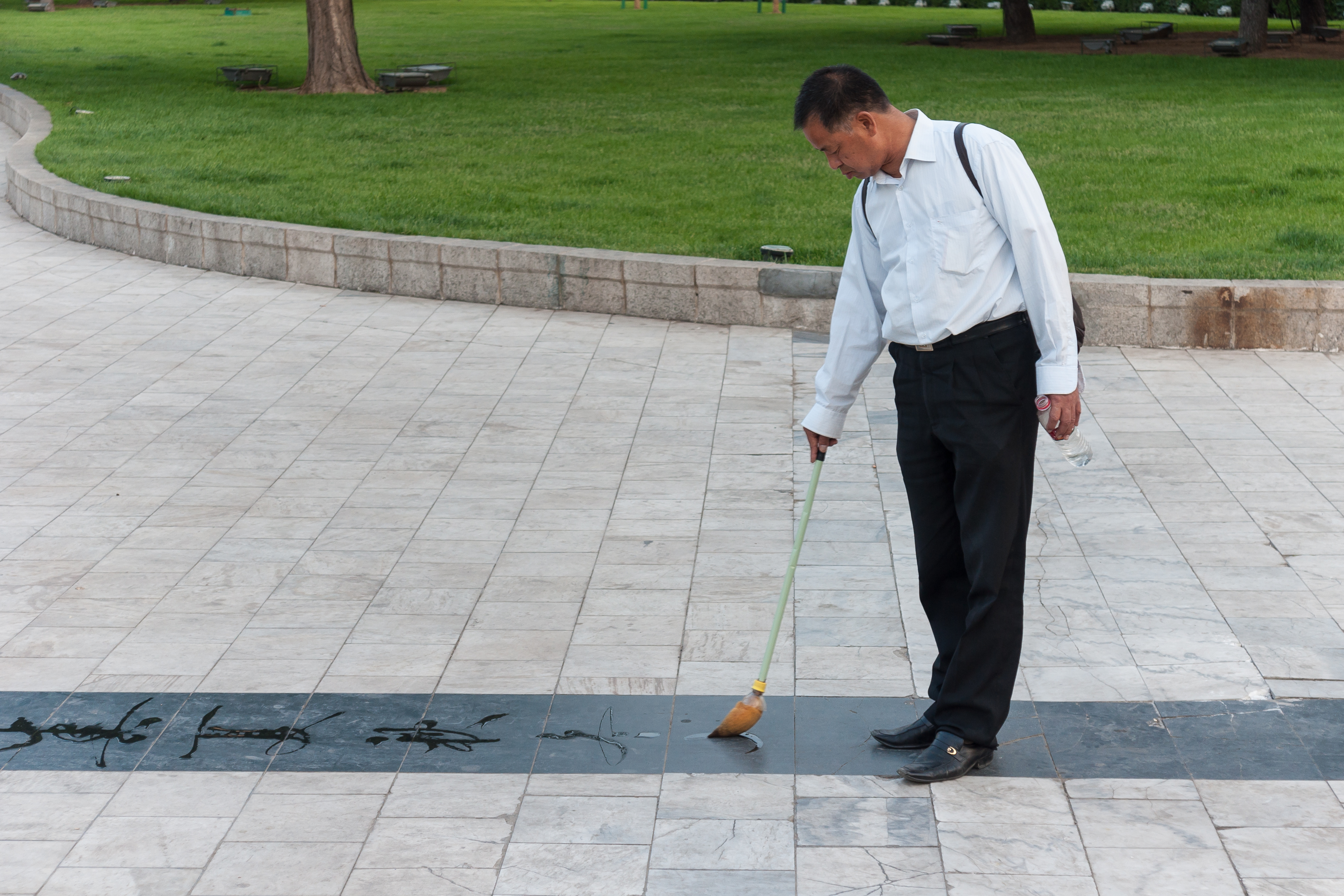 Dalian Liaoning China: A man, lost in his water calligraphy drawing in the Zhongshan Square Park in Dalian